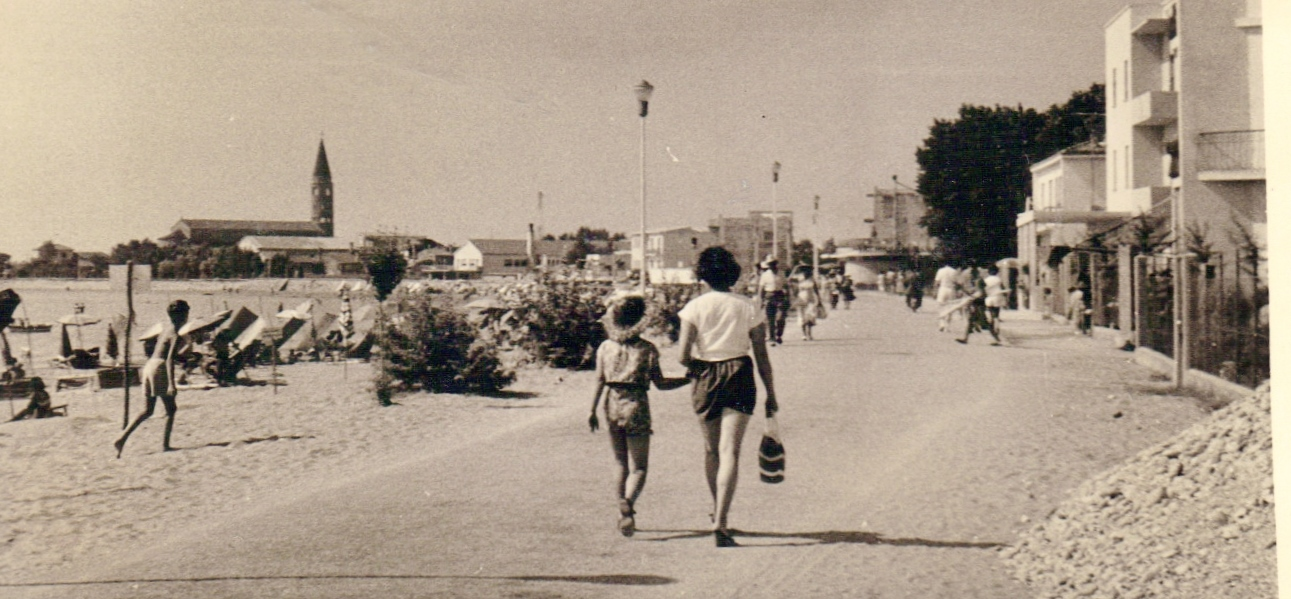 Caorle street scene 1958